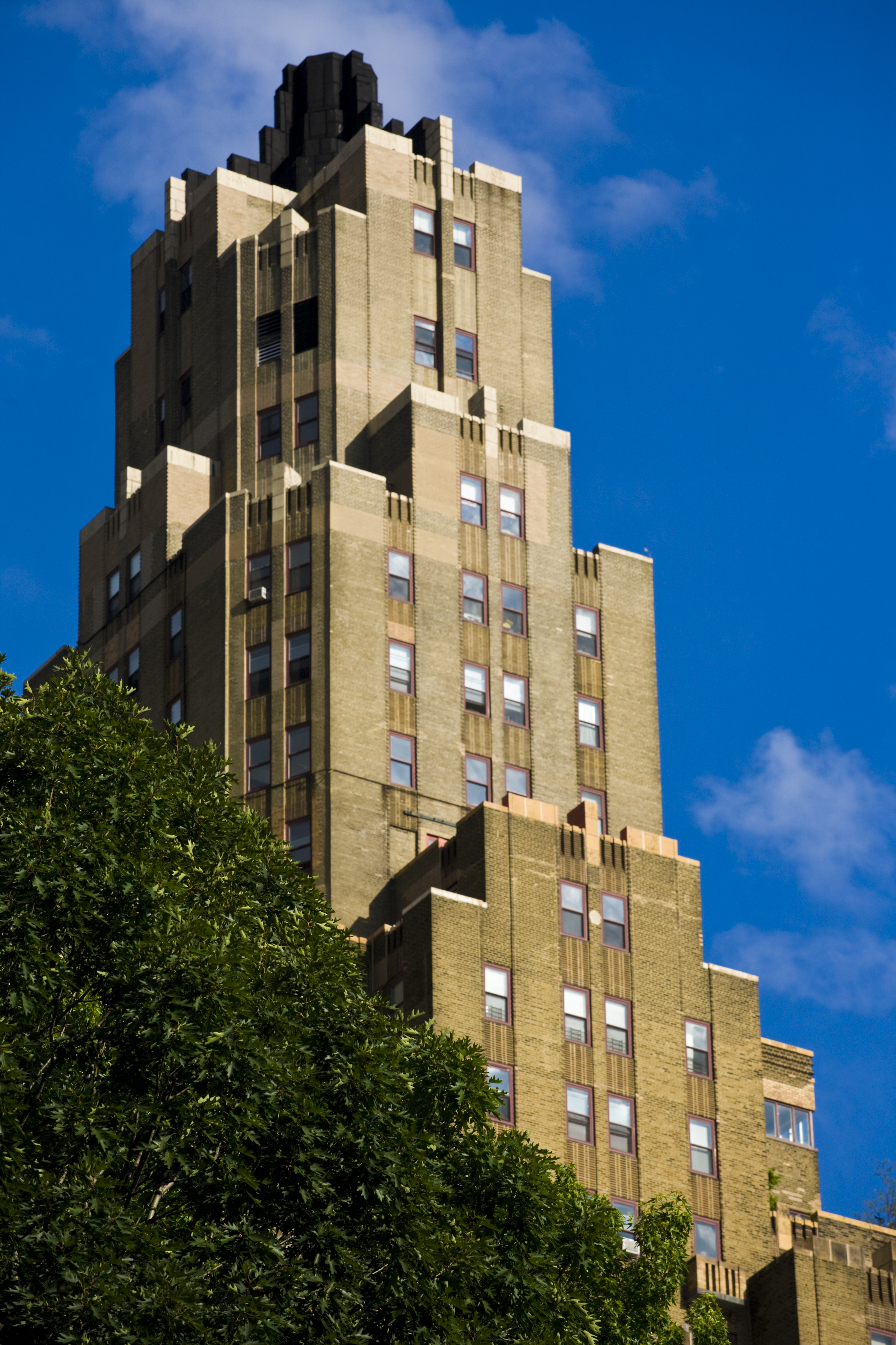 The Master Apartments